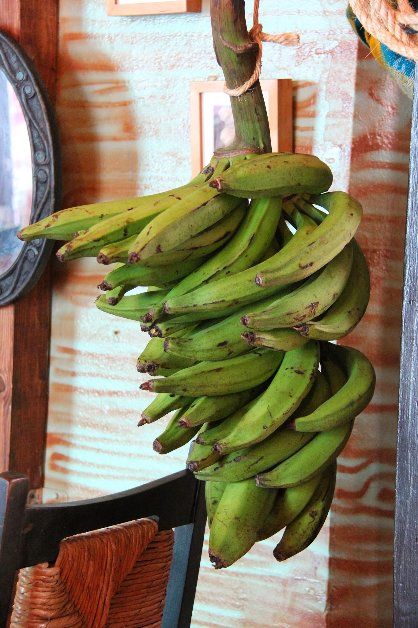 Plantin